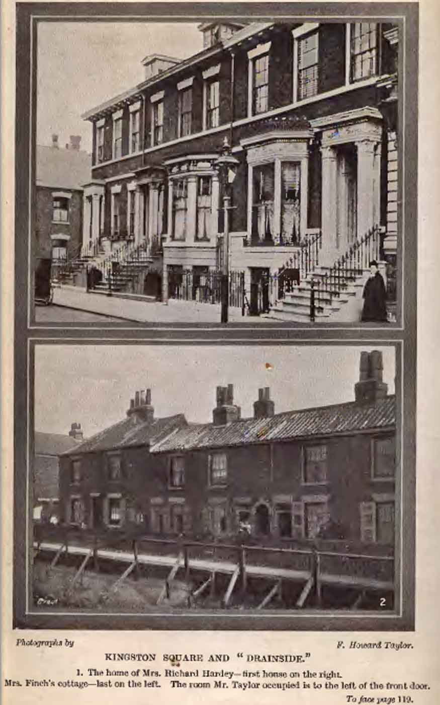 Hudson Taylor worked at Dr. Hardey's residence in Hull. He lodged at Dr. Hardey's brothers home Richard Hardey (top) before moving and living in the near poverty of Drainside